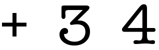 Illustration of prefix notation